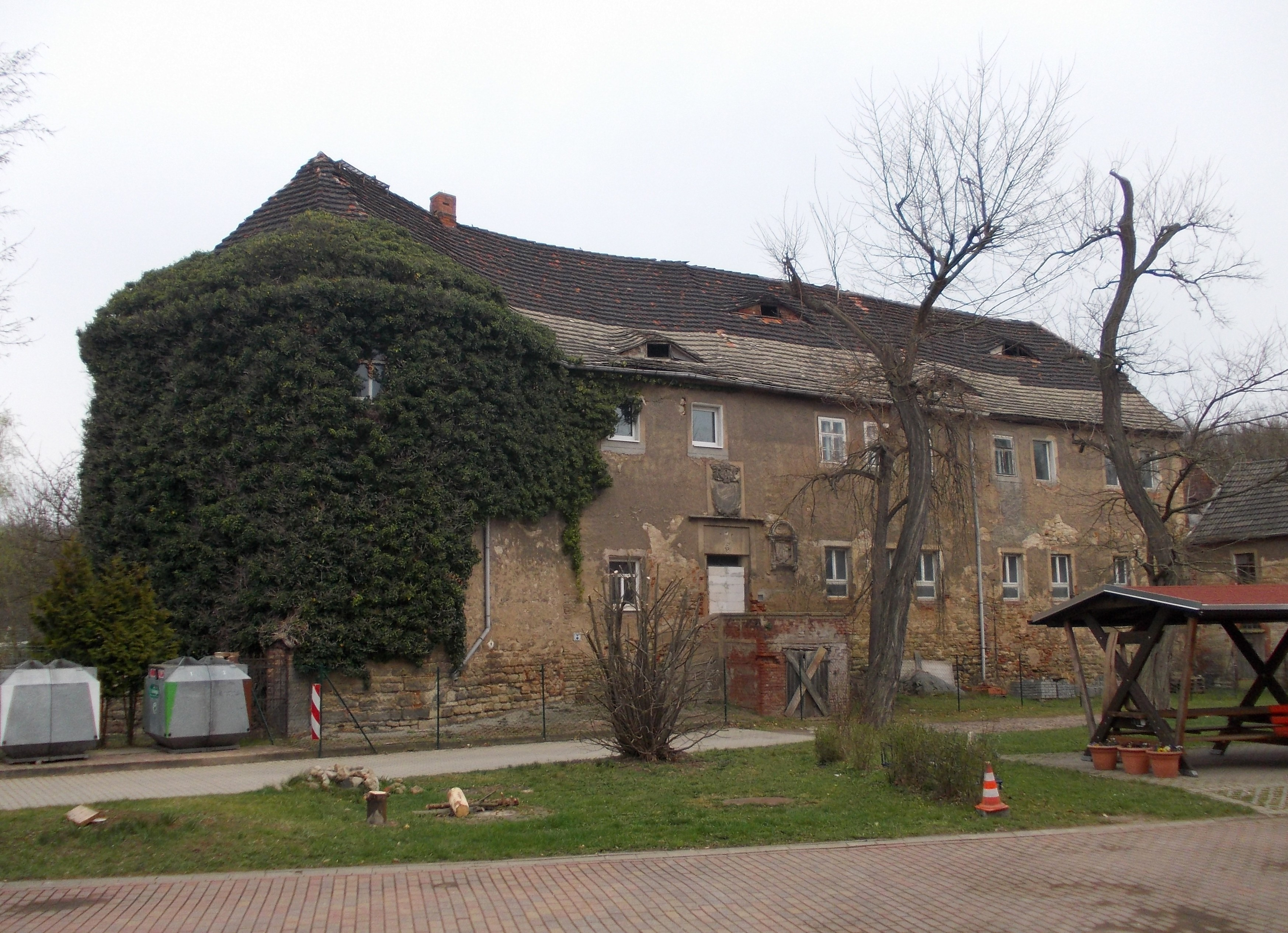 Burgliebenau castle (Schkopau, district: Saalekreis, Saxony-Anhalt)